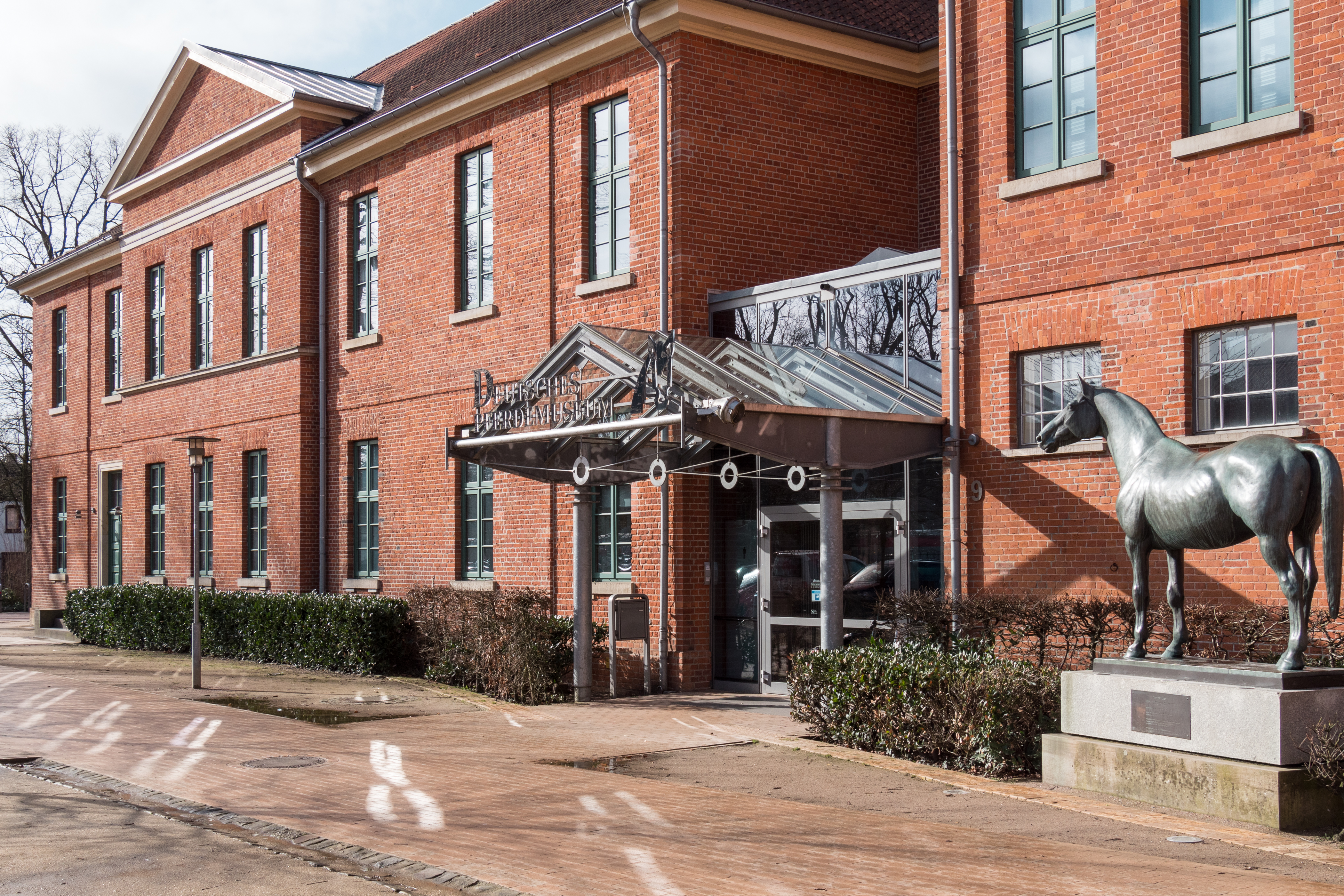 German horse museum in Verden (Aller)